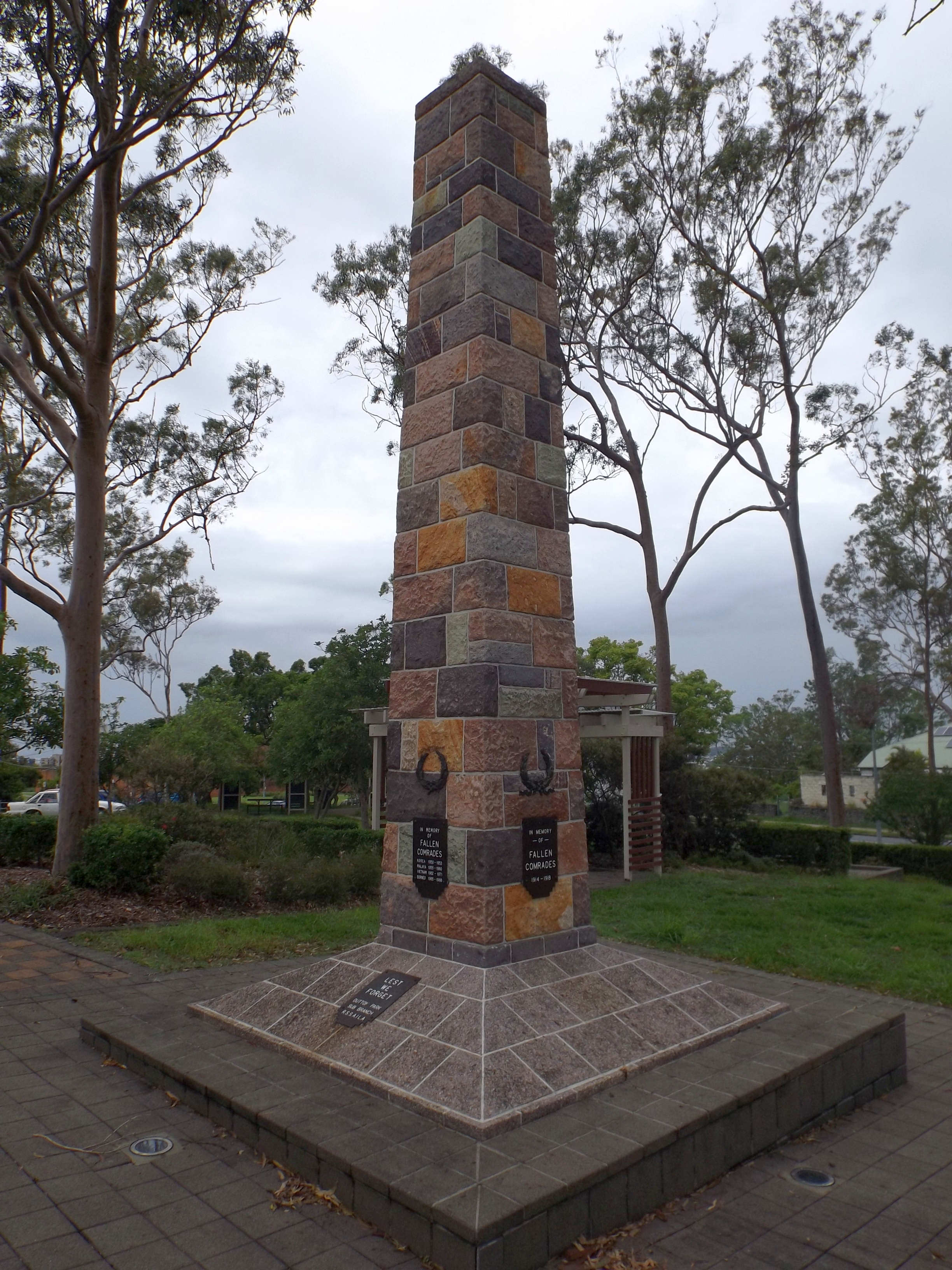 Photo of Gair Park war memorial in Dutton Park, Brisbane, Queensland, Australia.